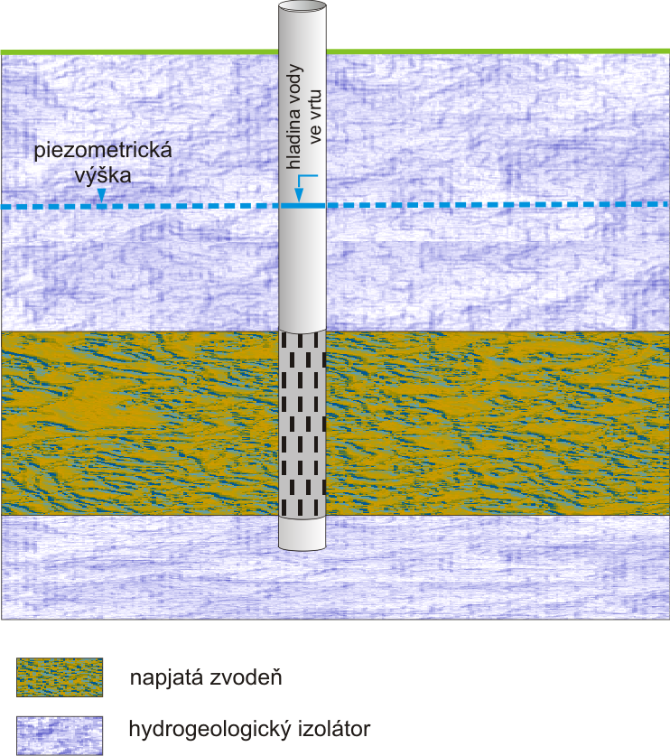 Confined groundwater body